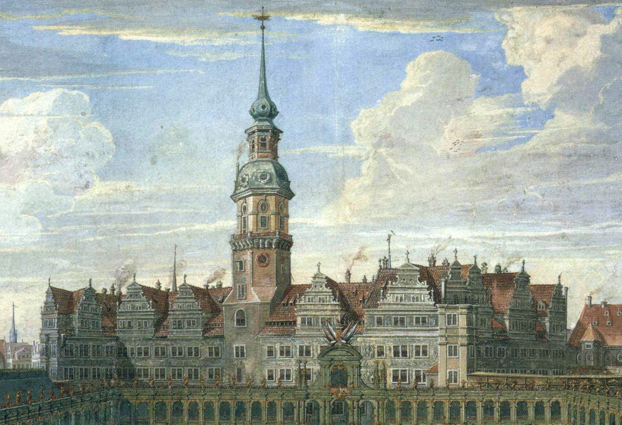 Dresden Castle in 1709